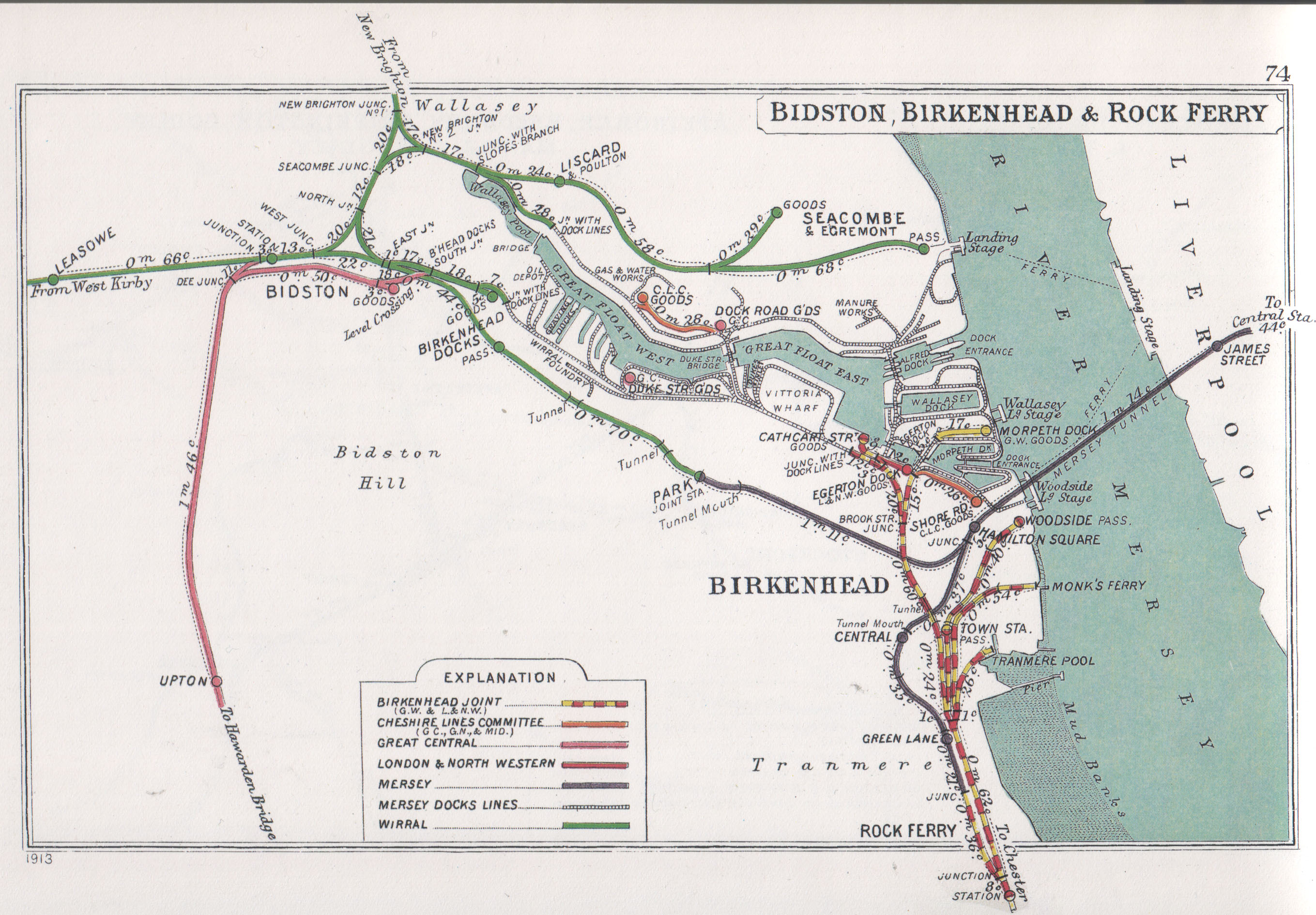 Railway Junctions in Bidston, Birkenhead & Rock Ferry pre grouping